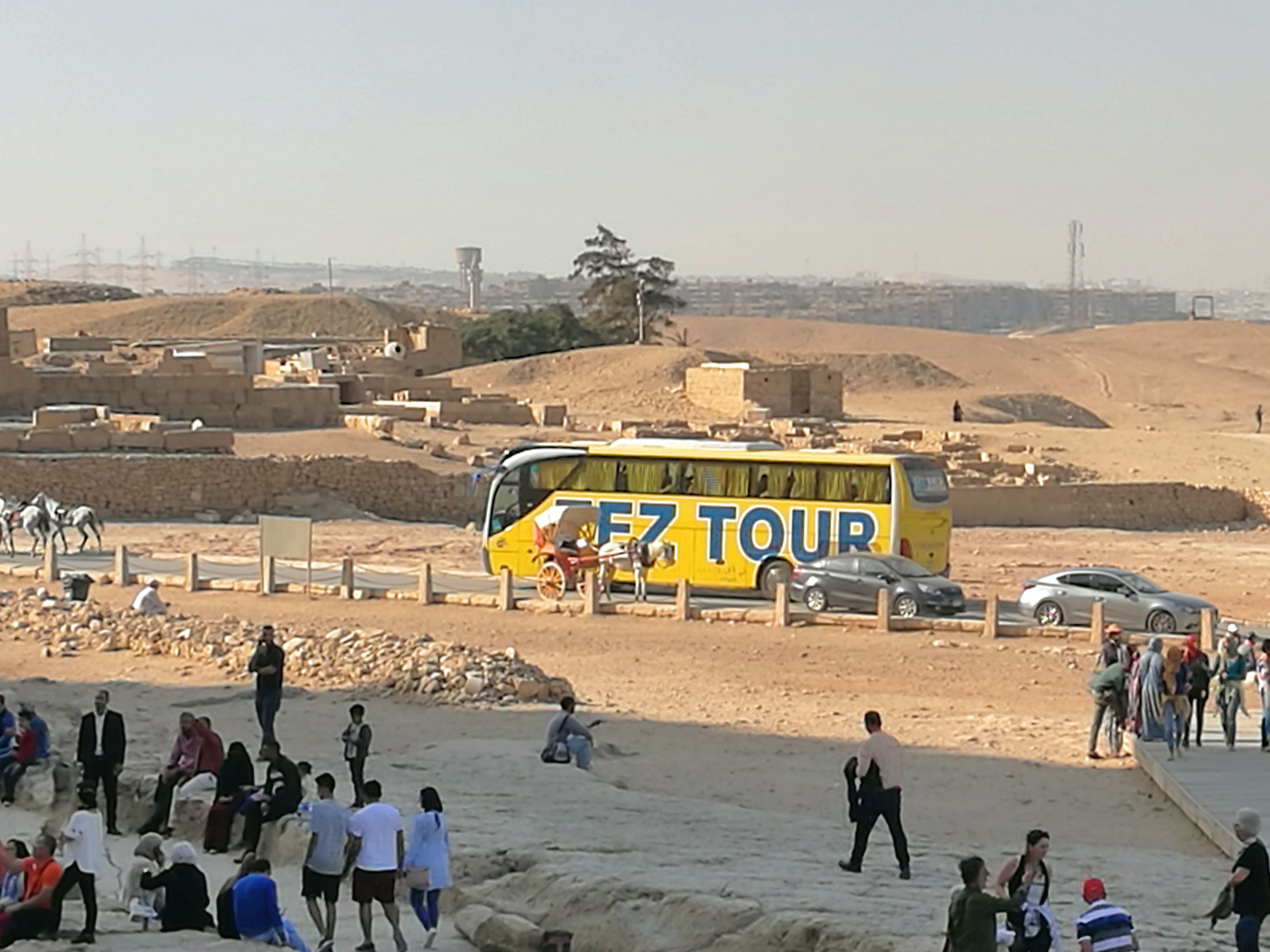 Tez Tour bus near the pyramids in Cairo, Egypt